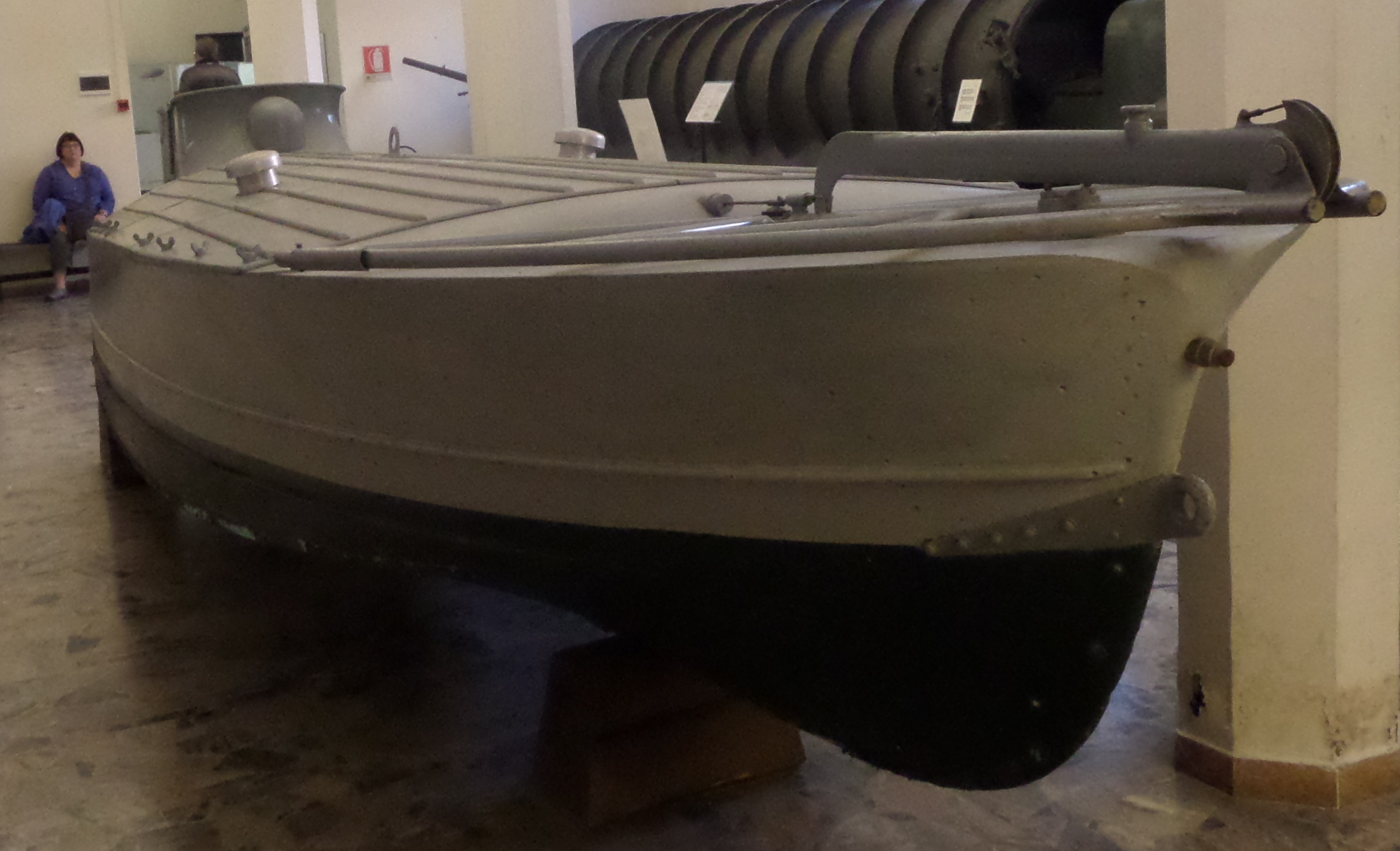 MTM or Explosive Speedboat. Designed by Admiral Aimone di Sovoia Aosta. Used in WWII at Suda Bay (26 March 1941) and at Malta (26 July 1941). The boat was towed by a destroyer or MTB, launched at night it would make its way slowly towards an enemy base, then it was propelled at full speed towards its target. At a distance of about 200 m the rudder was locked and the pilot jettisoned. A 300 kg charge exploded on contact. Extant example in the Naval Museum (Museo storico navale), Venice.